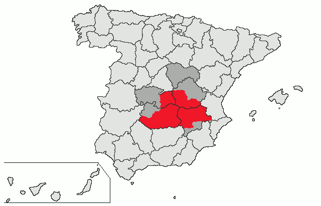 Location of La Mancha, Spain Creado por Satesclop, basándose en Image:Provincia Soria.png (esta a su vez basada en Image:ProvPont.jpg de Sobreira).